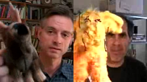 Image source is a screen shot image hosted on the BloggingHeads.tv site of a video podcast. Site specifically allows for image reuse.